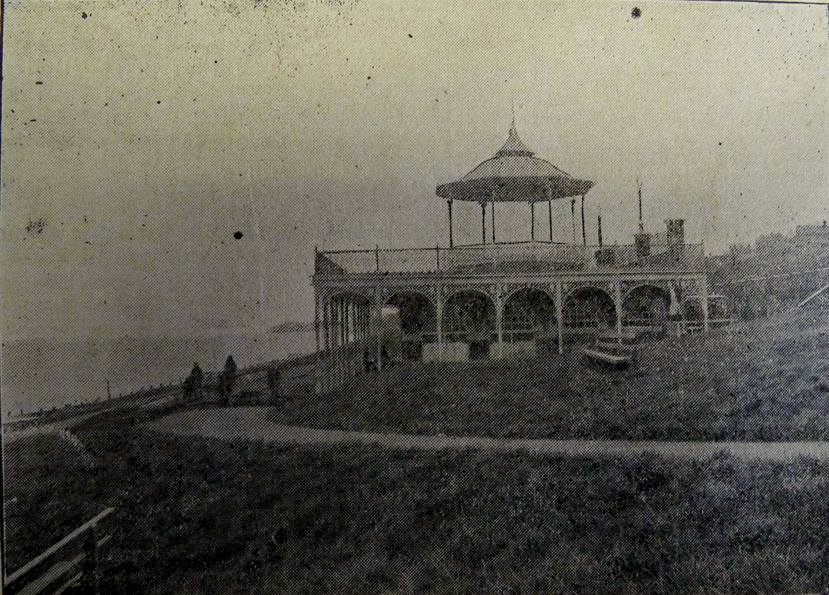 The Pavilion or Bandstand (later called the King's Hall), Herne Bay, Kent, England, at completion of its first phase, around March 1904. Points of interest The ironwork (which still exists) was originally painted white or a very light colour. The bandstand no longer exists on top of King's Hall.